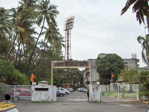 Wankhede cricket stadium, Bombay : Main entrance Source: Taken by me on 11-Aug-2005